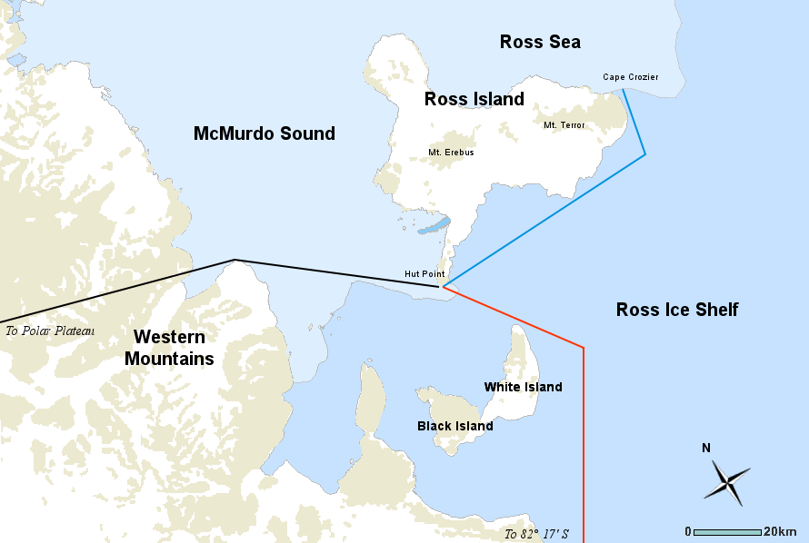 Map of the Discovery Expedition field of work, including three routes of explorations undertaken by members of the British National Antarctic Expedition of 1901-04 led by Robert Falcon Scott. RED line; Southern journey to Furthest South, November 1902 to February 1903. BLACK line; Western journey through Western Mountains to Polar Plateau, October–December 1903. BLUE line; Journeys to message point and Emperor Penguin colony at Cape Crozier, October 1902, September and October 1903.